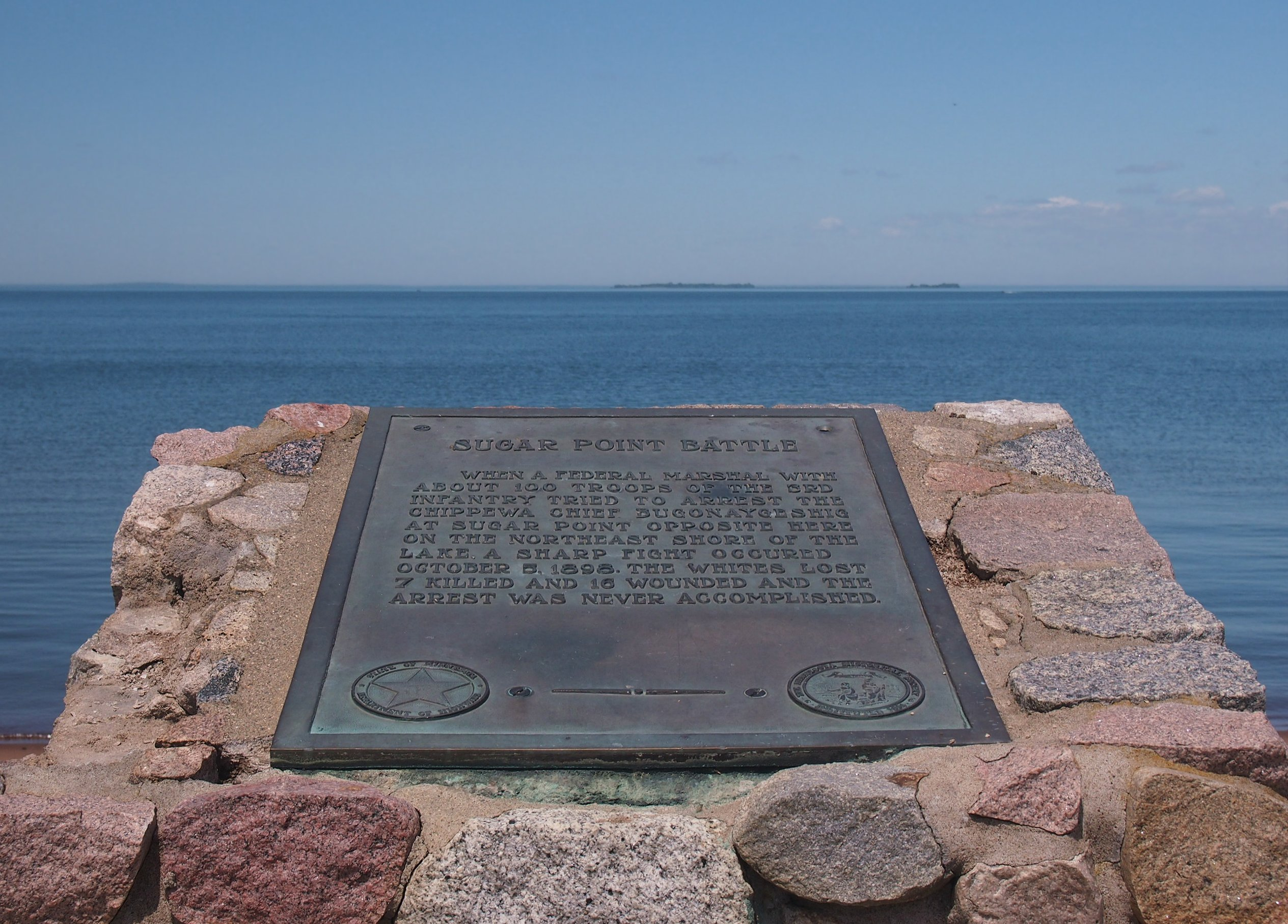 Battle of Sugar Point historical marker with Sugar Point (aka Battle Point) visible in distance across Leech Lake, Whipholt Roadside Park, Whipholt, Minnesota, USA.